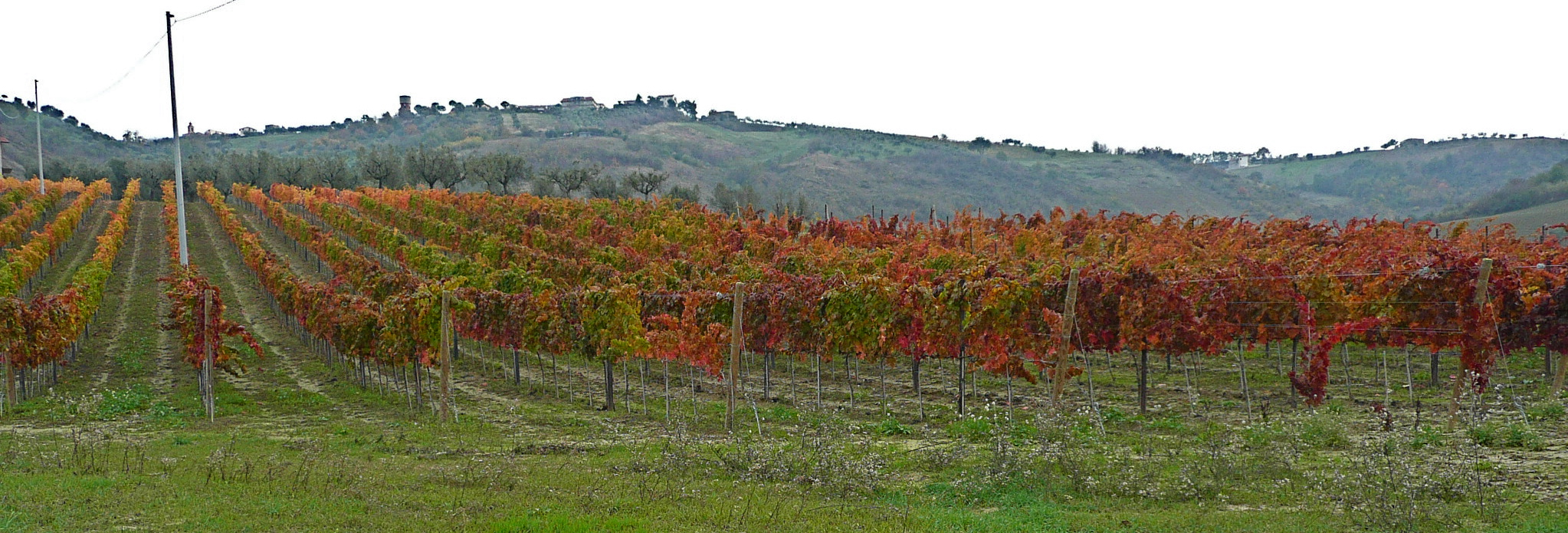 Montepulciano vineyards in the Abruzzi region of central Italy